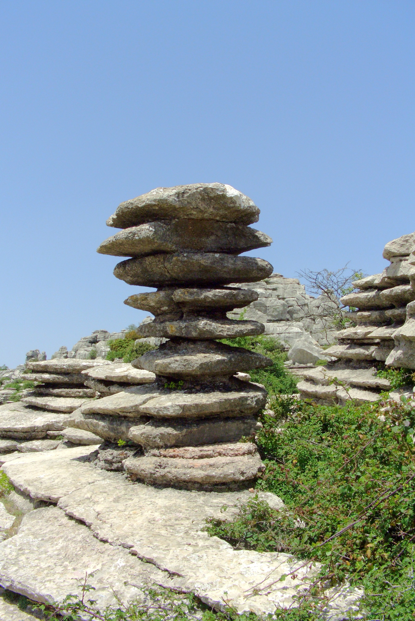 Steinformation in El Torcal, Spanien